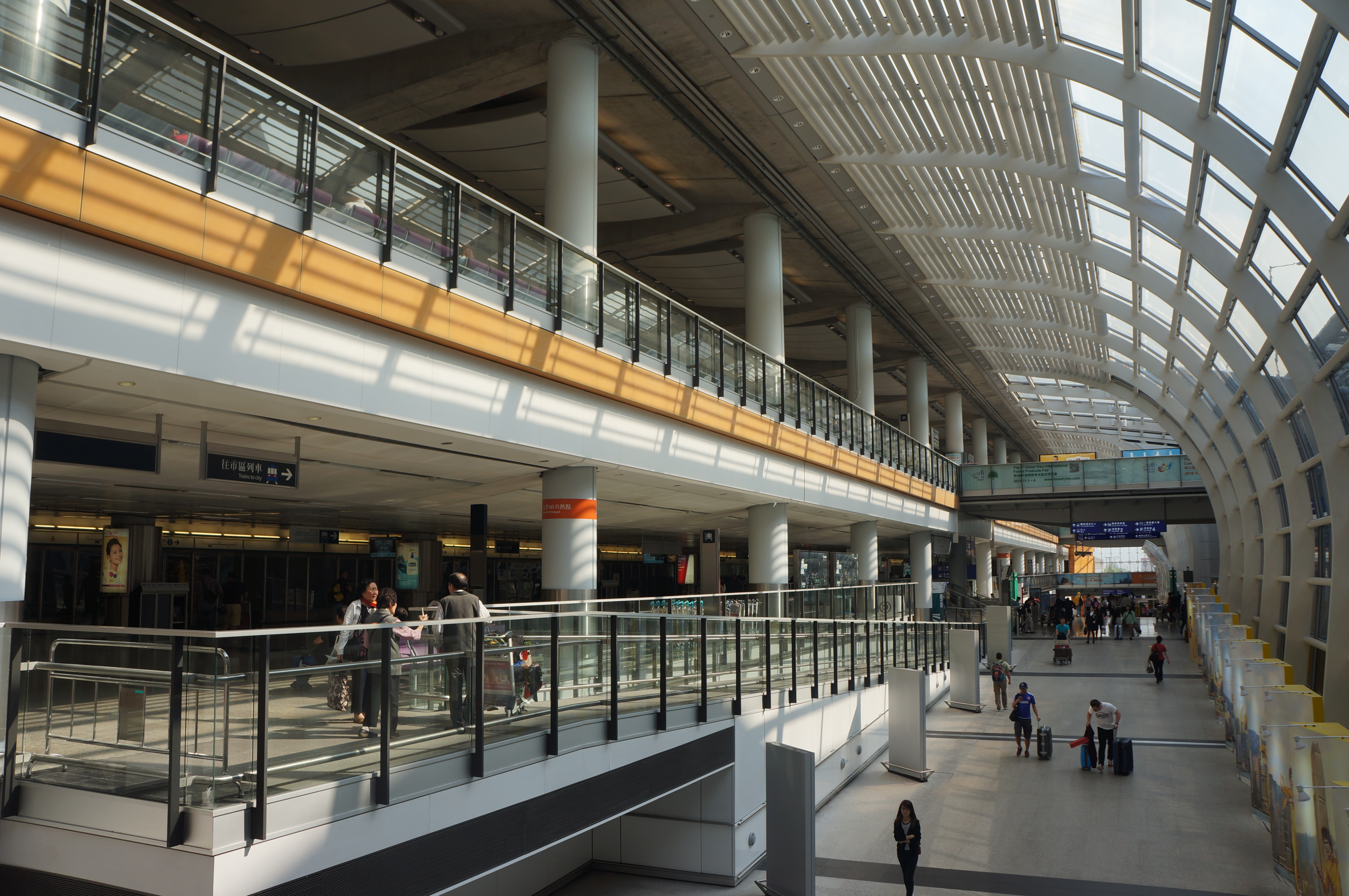 201611 Entrance and Exits of HKG Airport Station. No ticket barriers at all at Airport Station, it is a good rubbering strategy for GSRC to study